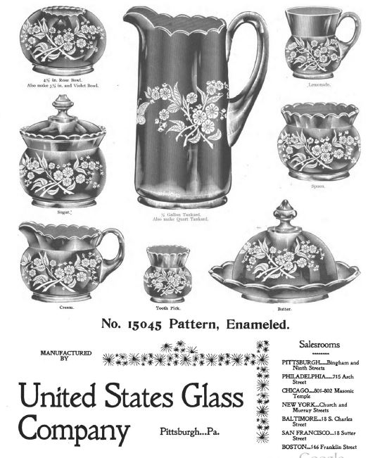 An advertisement for glass made by United States Glass Company from page 5 of Glass and Pottery World, April 1896